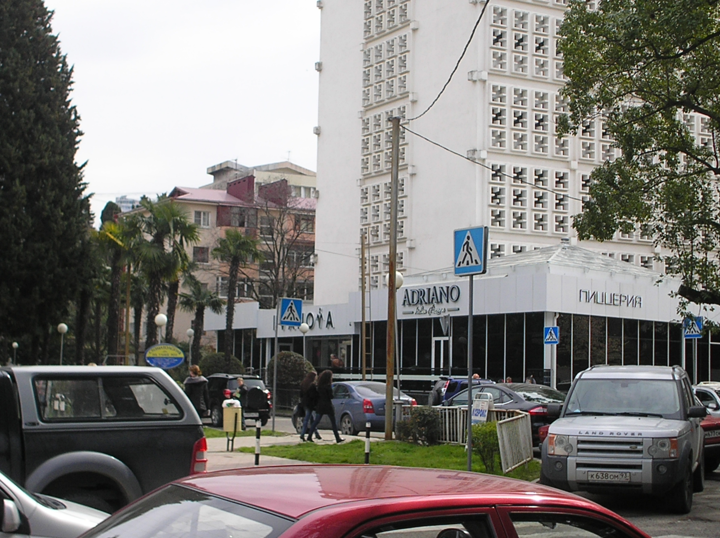 Institute of fashion